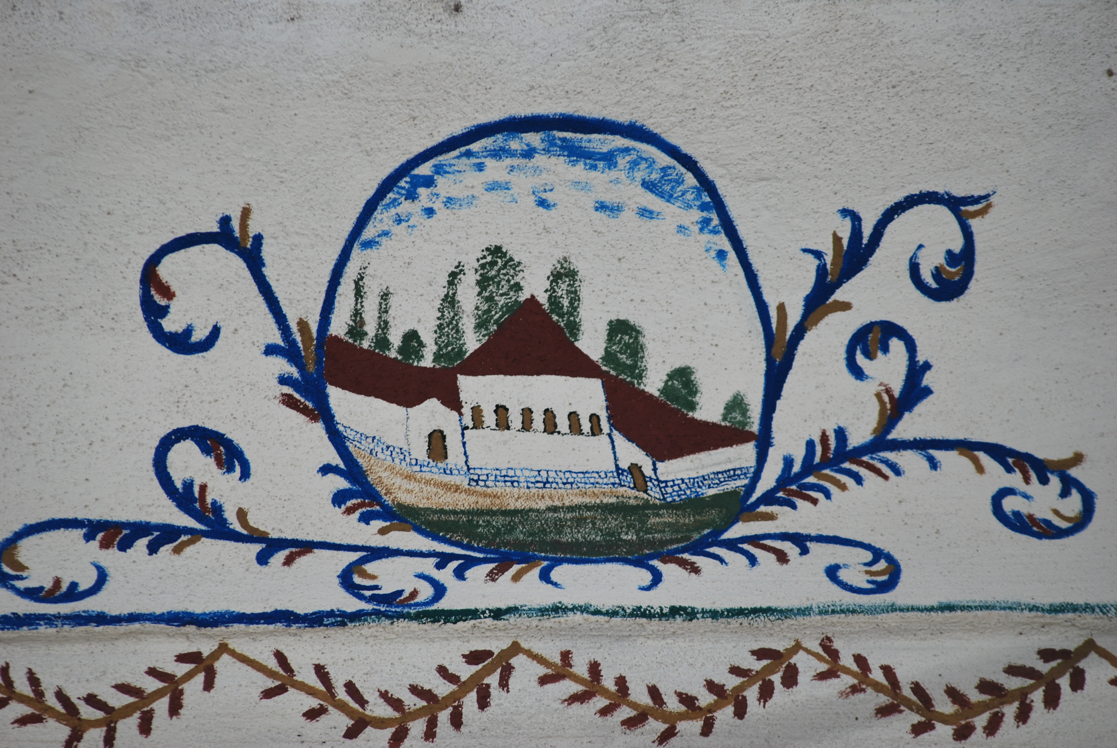 Vаrnalii complex in Veles, Macedonia